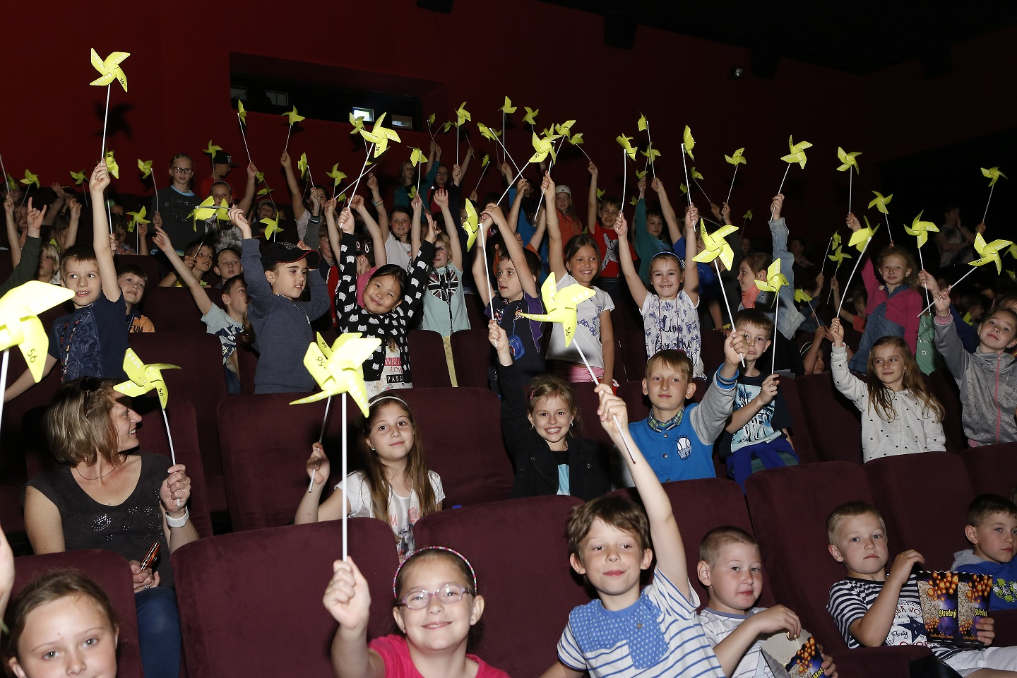 Film screening